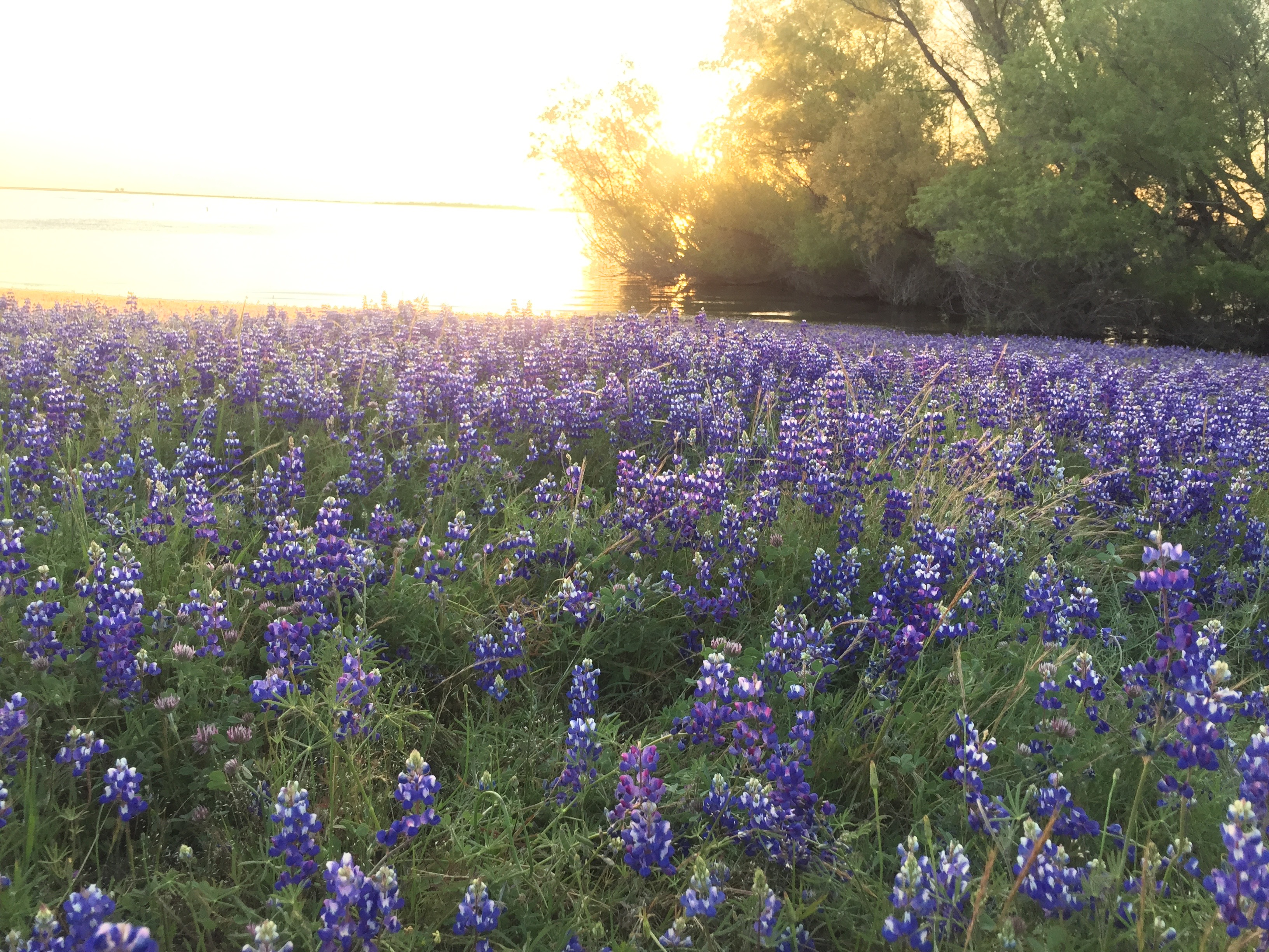 shows some of the types of wildflowers that grow in the FL SRA